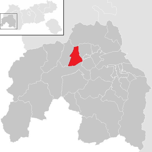 District Landeck